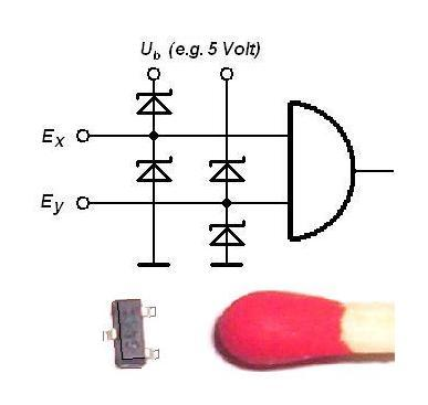 clamp diodes for input overvoltage protection